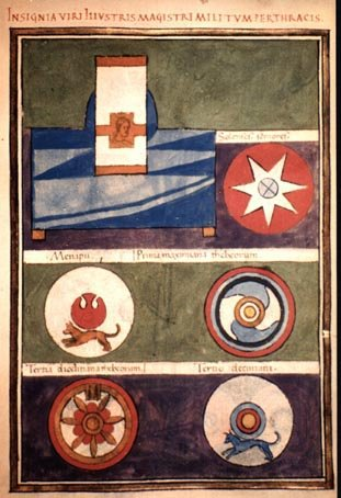 Magister Militum per Thracias page 1 from Notitia dignitatum